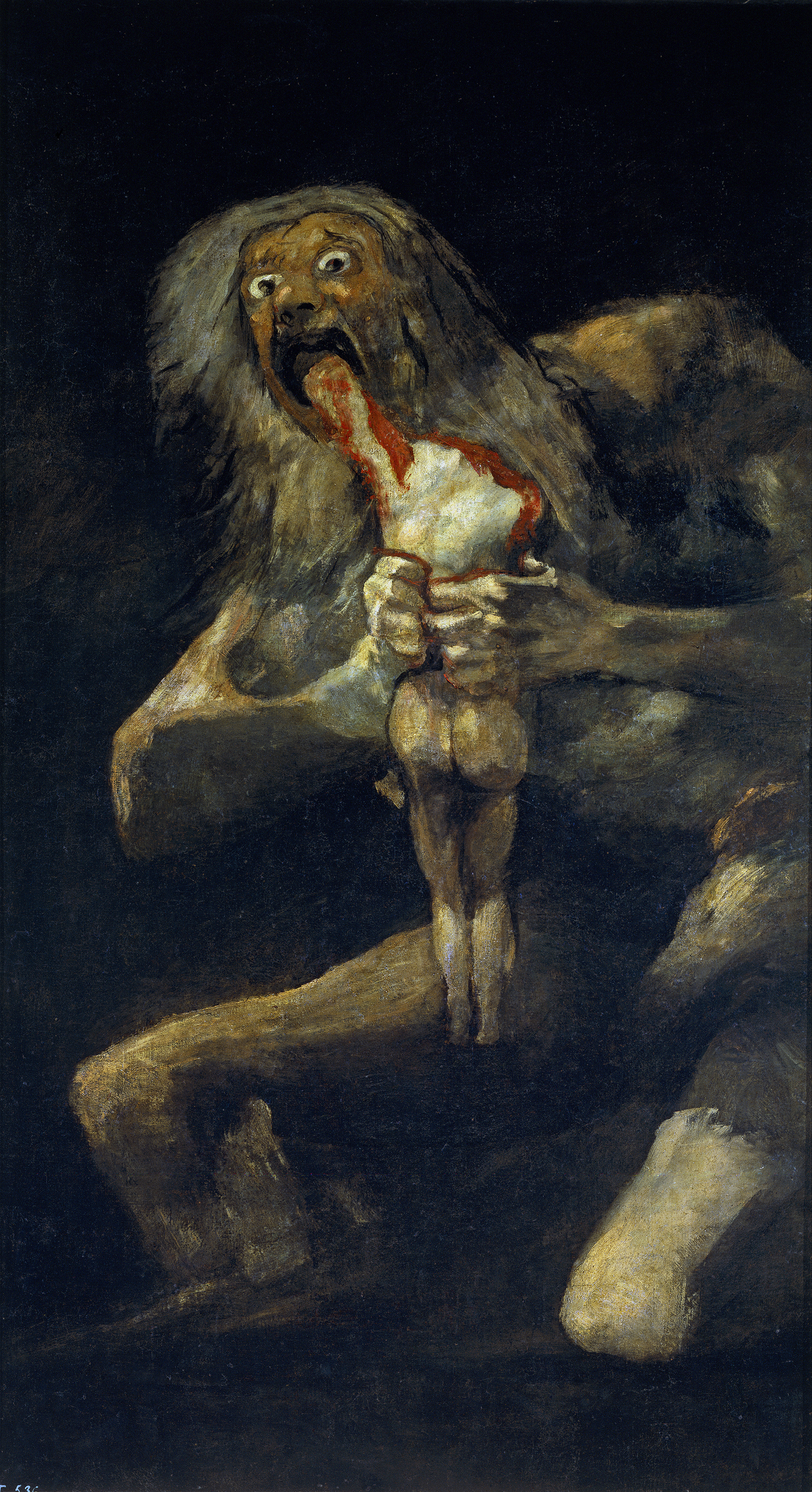 This painting is part of the "Black Paintings" series and depicts the Greek Myth of Cronus. .